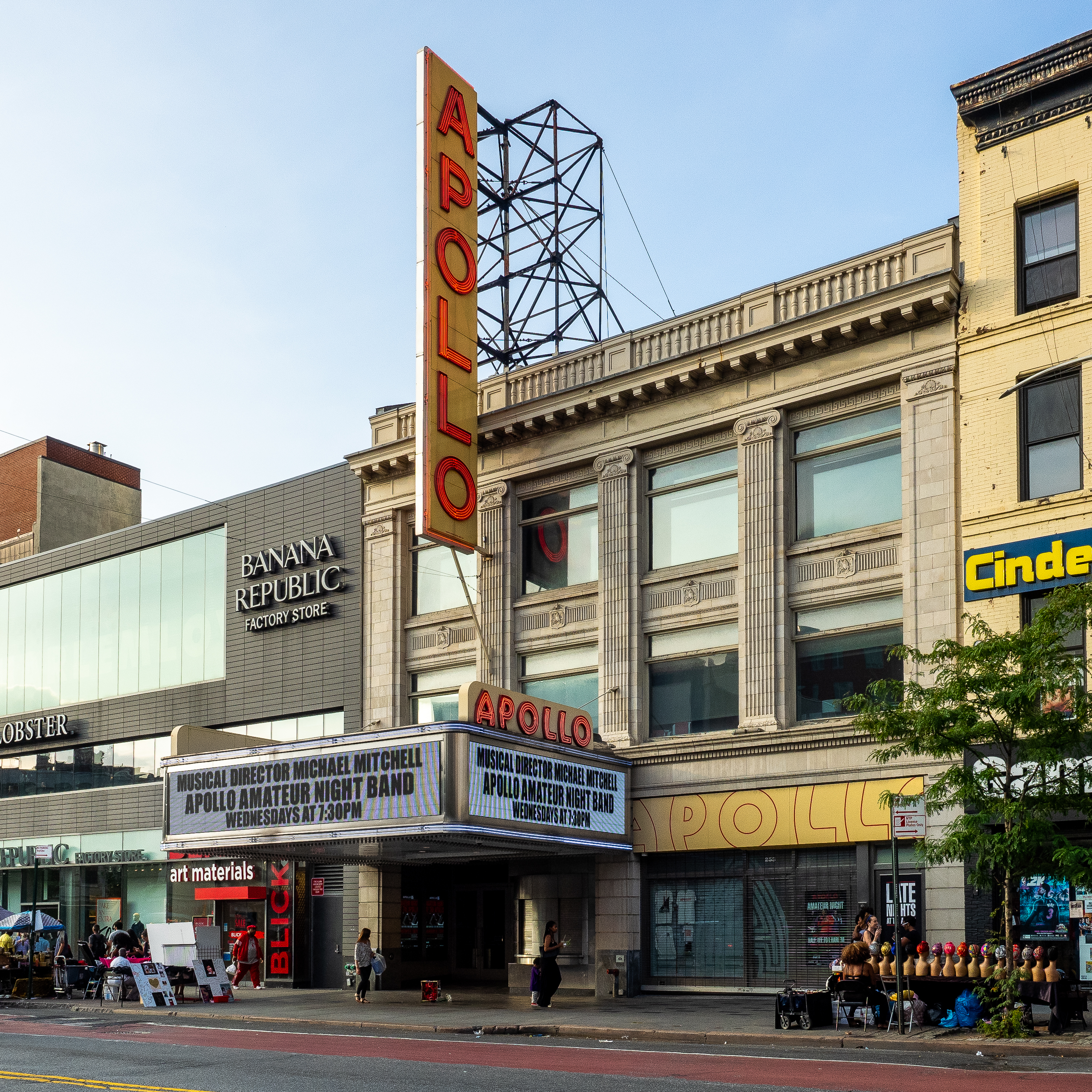 Harlem, Manhattan, New York City